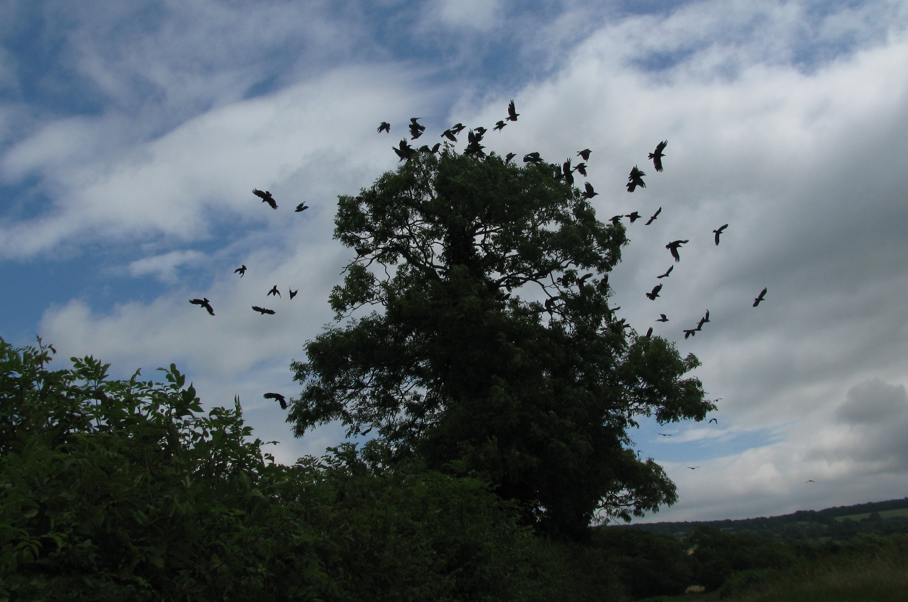 Taken in the Cotswolds, England.